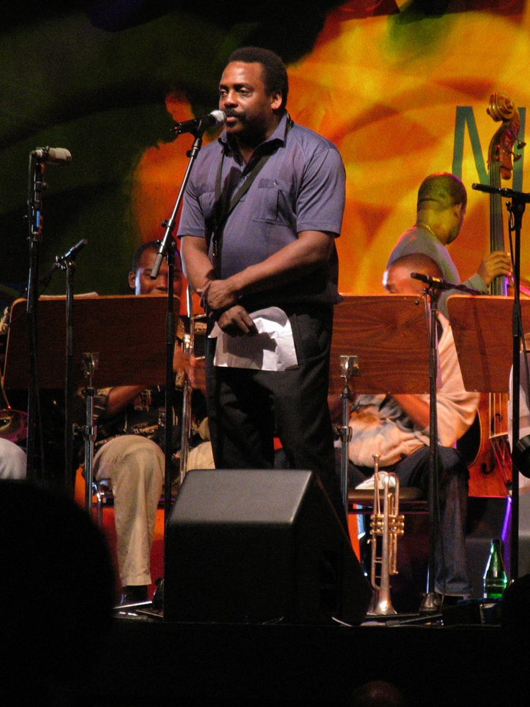 David Murray at Moers Festival 2004 own photo, may 28, 2004 photo: nomo/michael hoefner